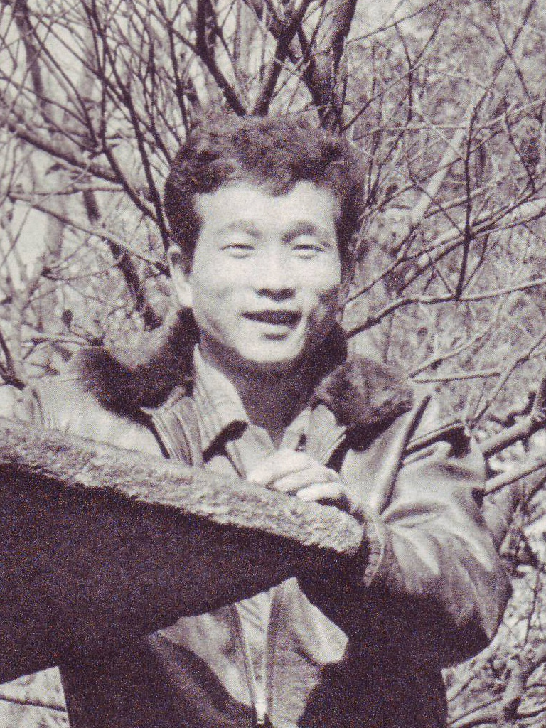 Hiroyuki Ebihara. taken in Before April 1962.